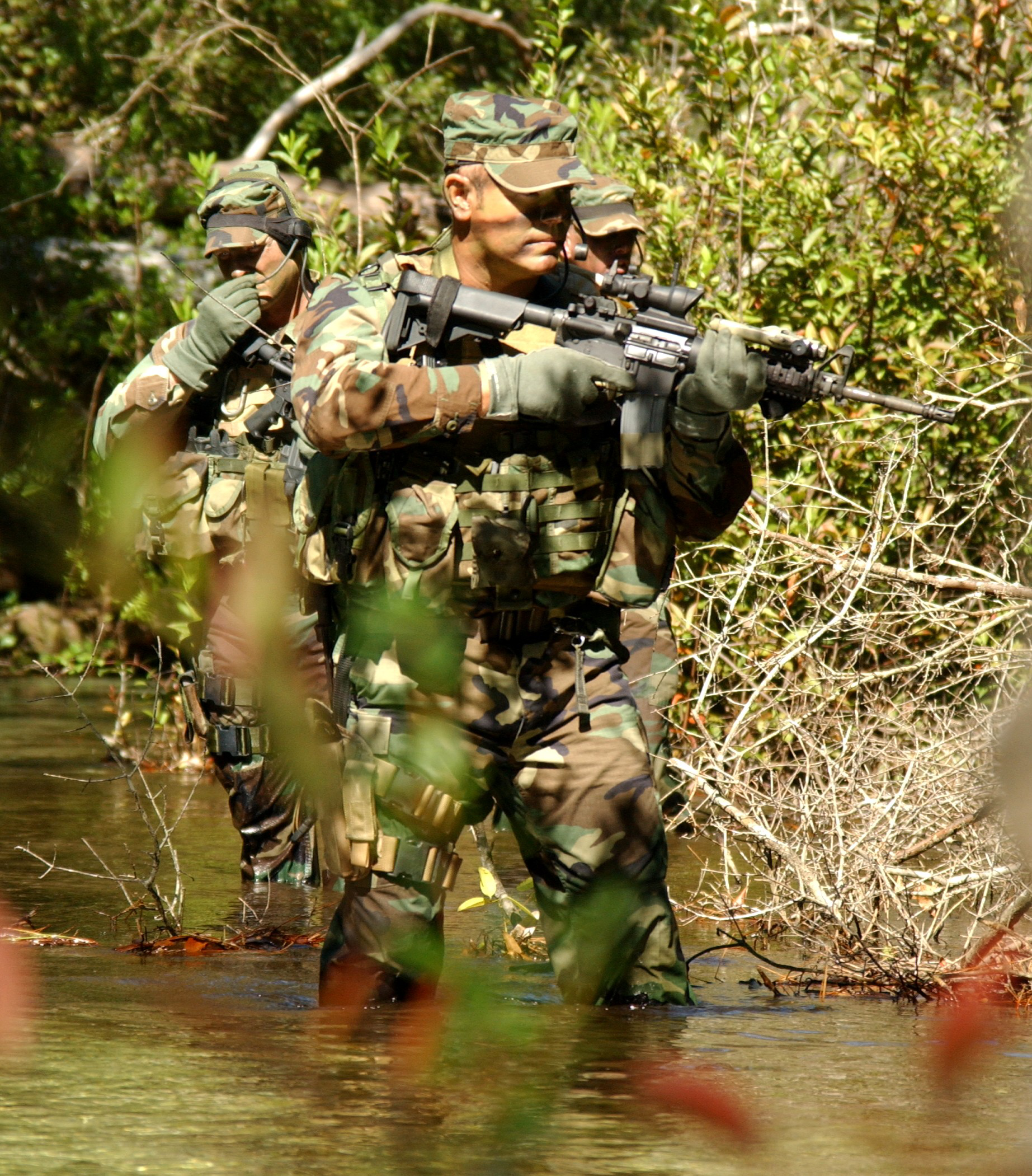 US Air Force Special Operations Command Special Operations Weathermen conduct training near Hurlburt Field, Florida. (US Air Force photo by Chief Master Sergeant Gary Emery) category:Soldiers